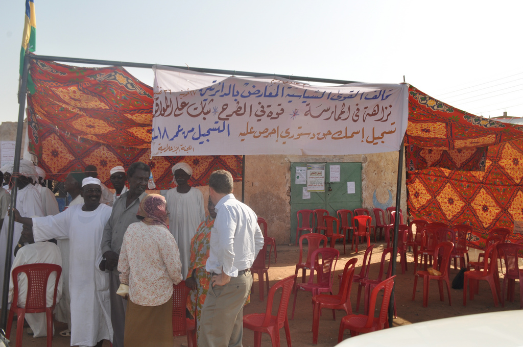 A voter registration site in Khartoum